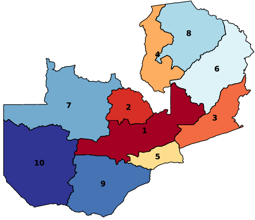 Provincial administrative divisions of Zambia